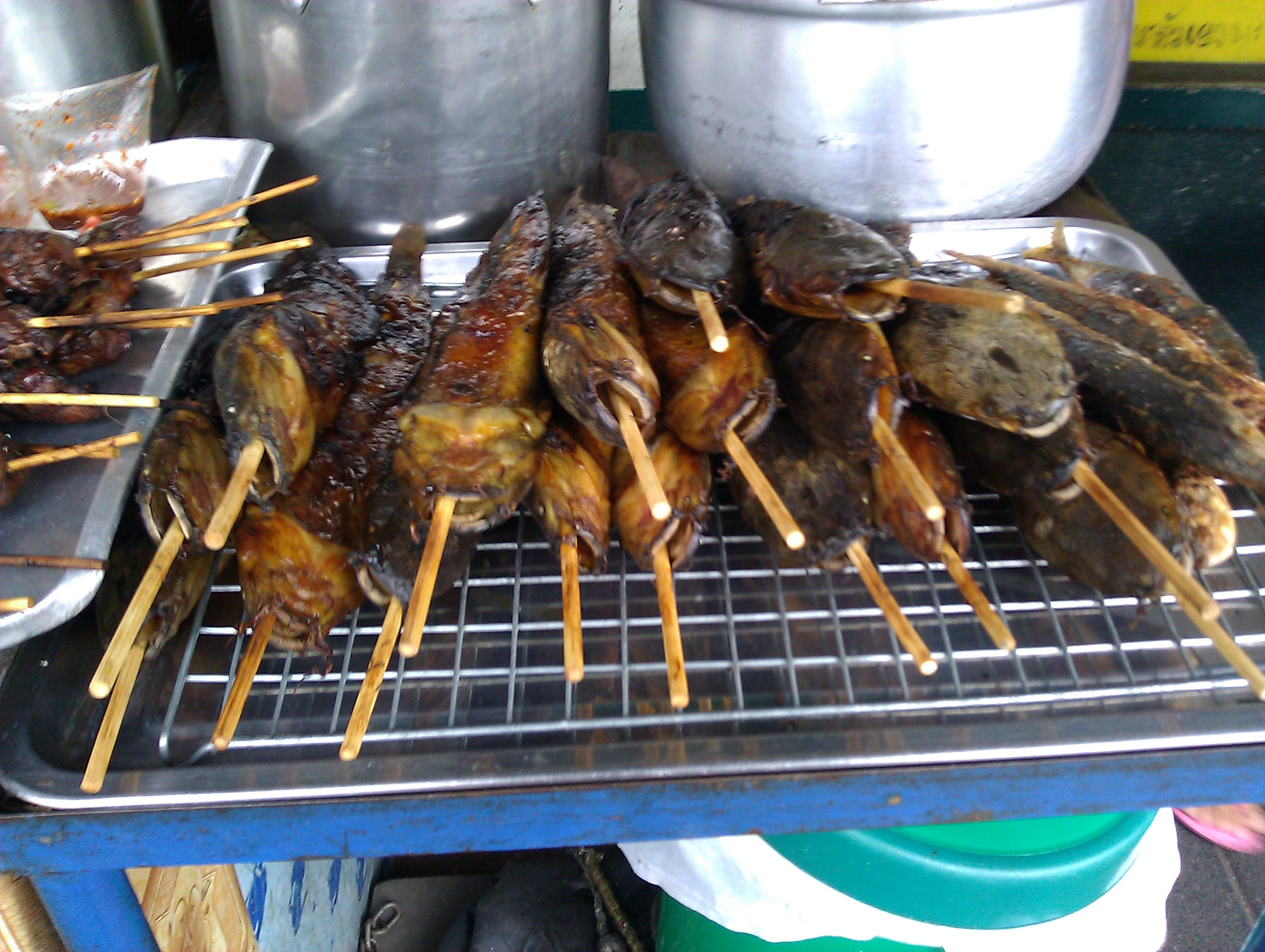 broadhead catfish (Clarias macrocephalus) street food in Chonburi, Thailand